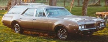 Copyright 2005 GM Skywagon Club ( Used with permission (I am the Moderator East of the GM Skywagon Club)